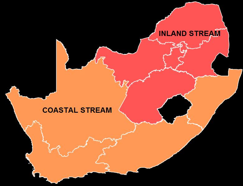 Location Map Of The National First Division (South Africa) With material of the user "TheBigJagielka".